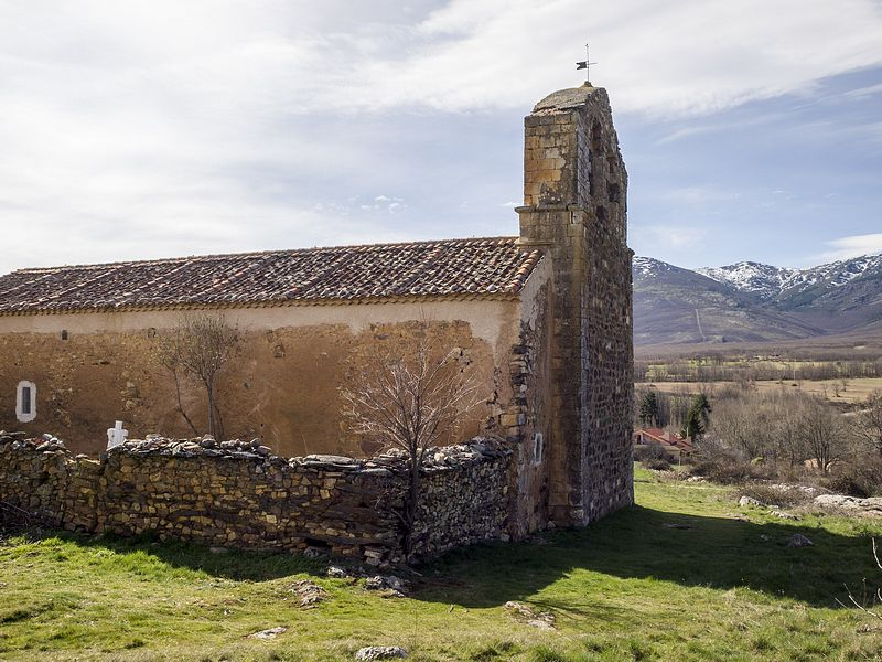 Iglesia